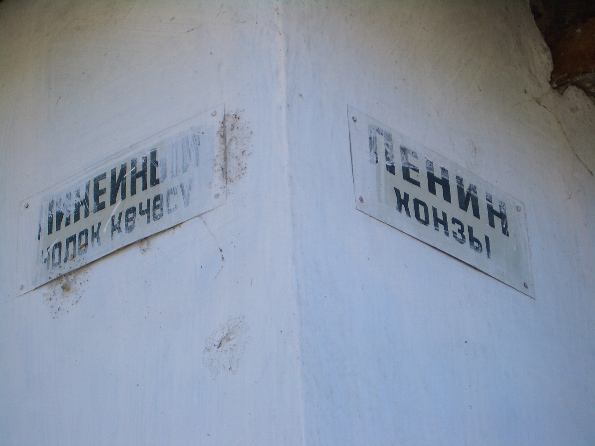 Signs on the street corner in Milyanfan village, Kyrgyzstan. On the right, Lenin St is labeled in Dungan (a rarity); on the left, Lineiny Lane is labeled in Kyrgyz.